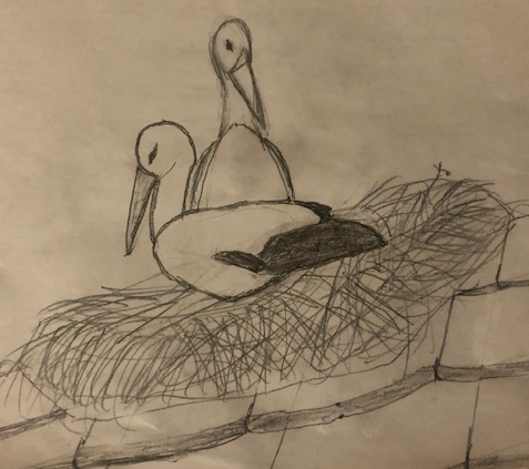 A sketch of Klepetan and Malena in their nest